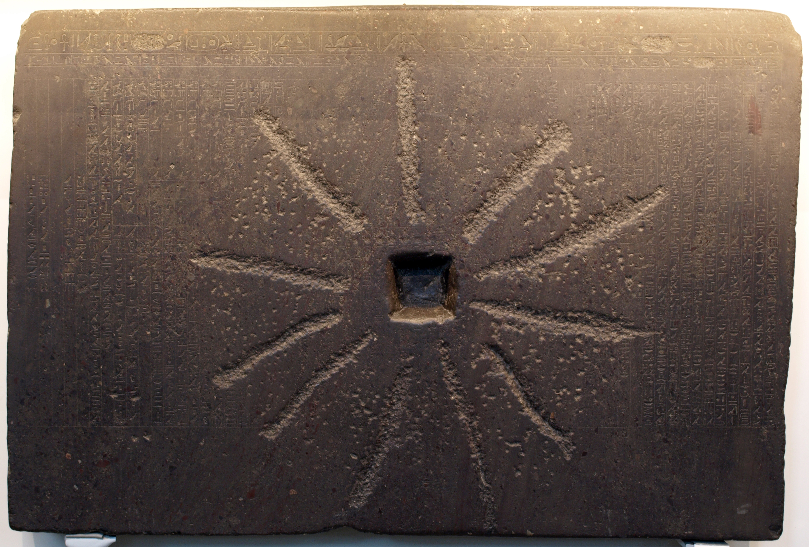 The "Shabaka Stone", bearing an inscription outlining the creation myth centred on the god Ptah; circa 710 BC. EA 498.